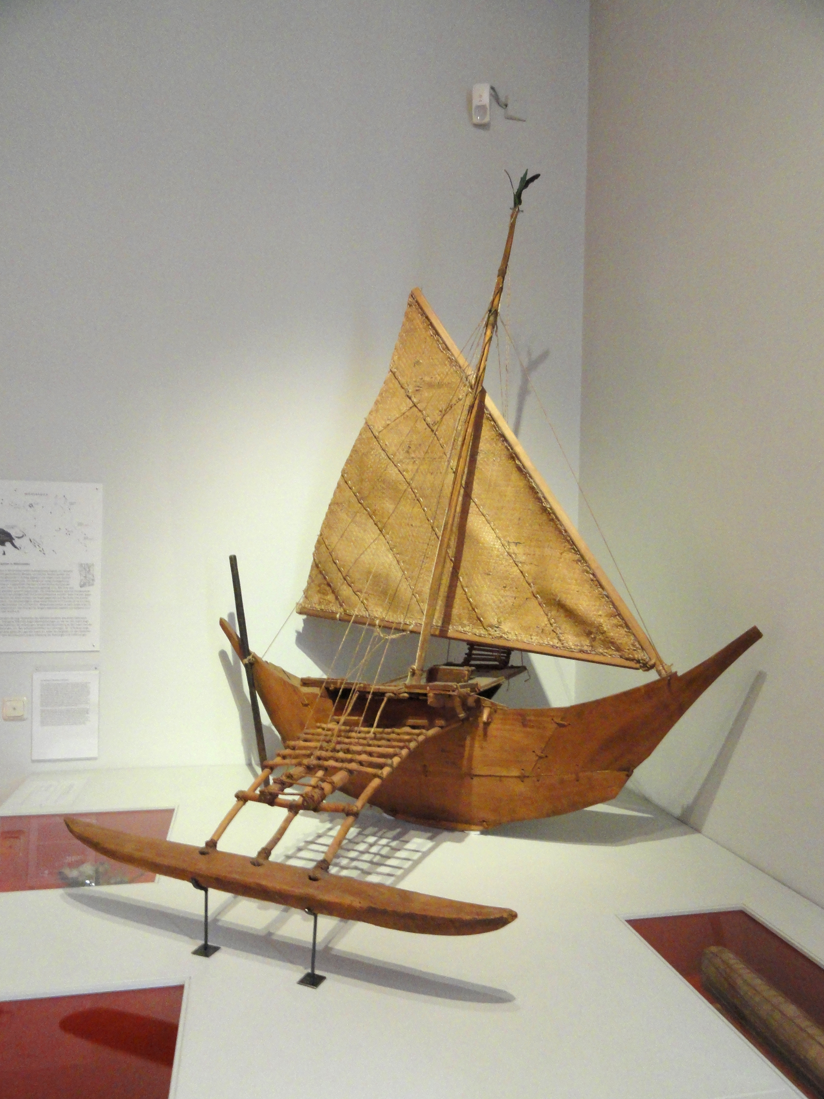 Exhibit in the Oceanic collection of the Staatlichen Museums für Völkerkunde München, Maximilianstraße 42, Munich, Germany. Model of outrigger boat, Marshall Islands, 1891.